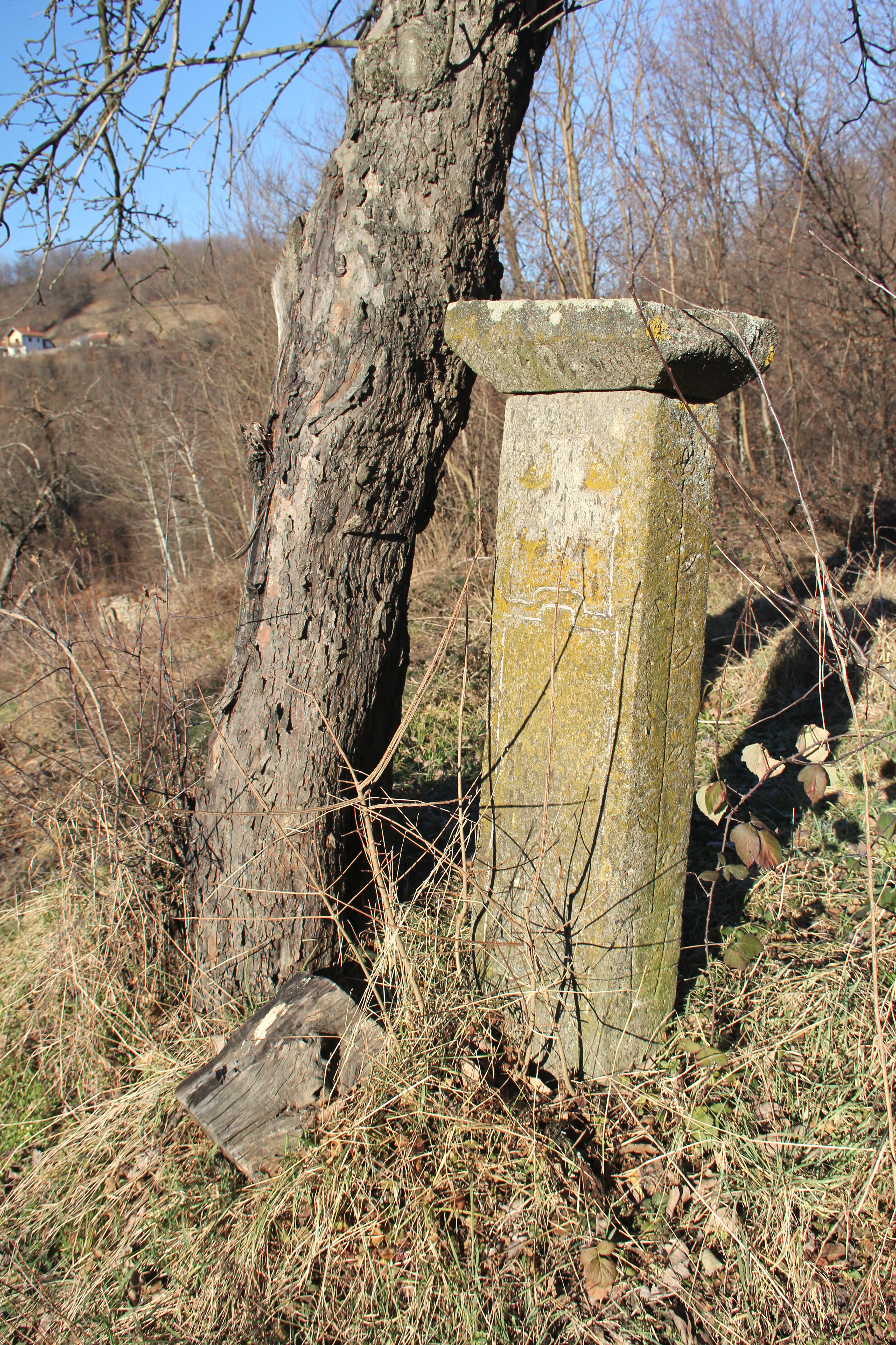 Roadside tombstone erected in memory of Vladimir Mladenovic, the village of Trudelj (municipality of Gornji Milanovac), Serbia.